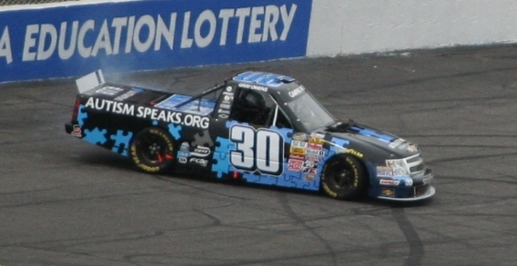 Kyle Larson celebrates after winning the North Carolina Educational Lottery 200 at Rockingham Speedway in 2013.